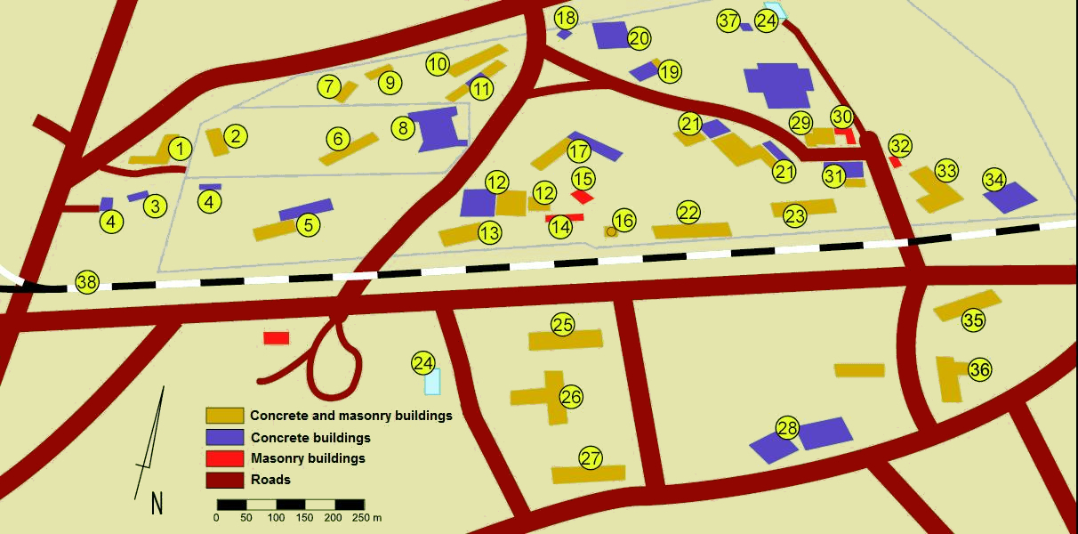 map of Wolf's Lair: (Note: This numbering doesn't match the real numbering) 1. Residential premises and Hitler's personal bodyguard 2. Bodyguard and Security Service 3. Emergency generator 4. Bunker 5. Press Chief Dr. Otto Dietrich 6. Conference shack, location of the unsuccessful attack on Hitler of 20 July 1944 7. Security police 8. Air-raid shelter for guests 9. Hitler's personal bodyguards 10. Stenographers 11. Security, first Hitler's bodyguard Rattenhuber, chief of the police department Högl, Post Office 12. Telex 13. Garages 14. Train 15. Cinema 16. Heating buildings 17. Dr. Morell, Bodenschatz, Hewel, Voss, Wolff, Fegelein 18. Commissary 19. Martin Bormann, Hitler's personal secretary 20. Bormann's air-raid shelter 21. Hitler adjutants and Wehrmacht personnel 22. Mess II 23. General Alfred Jodl, Chief of the Operations Staff of the Armed Forces High Command (OKW) 24. Firefighting pond 25. Office of the Foreign Ministry 26. Dr. Fritz Todt, after his fatal accident: Albert Speer 27. Hotel batallion 28. Air-raid shelter with Flak and MG units on the roof 29. Mess I 30. New tearoom 31. General Field Marshal Wilhelm Keitel, chief of the High Command of the Wehrmacht (OKW} 32. Old Teahouse 33. Hermann Göring, Reich Field Marshal, head of the Luftwaffe 34. Göring's air-raid shelter with Flak, MG and reflector units 35. Representation of the High Command of the Air Force 36. Representation of the High Command of the Navy 37. Bunker with Flak Station 38. Railway line